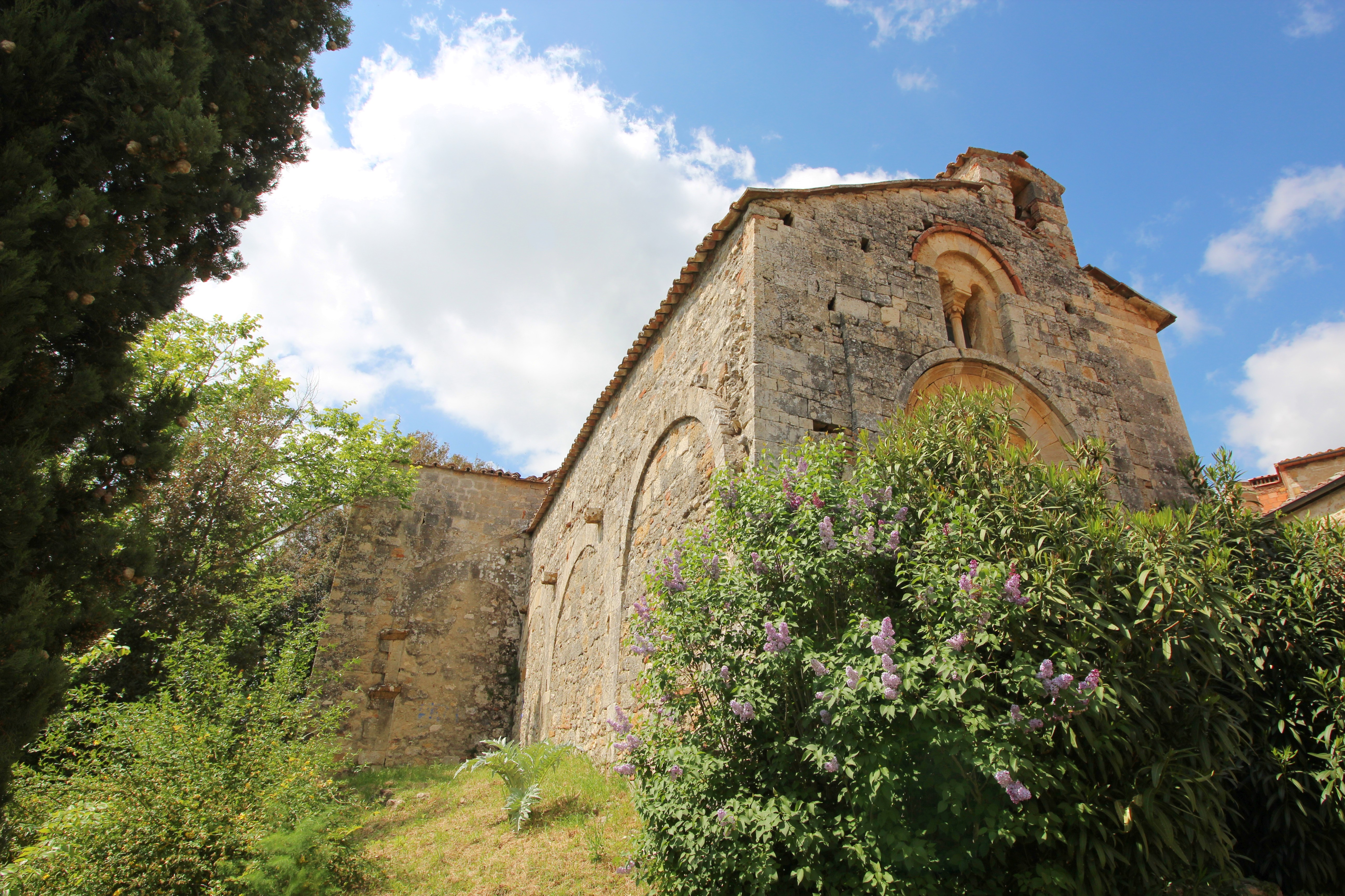 Church San Giovanni (before: San Pietro), in Montegabbro, village in the territory of Colle di Val d'Elsa, Province of Siena, Tuscany, Italy